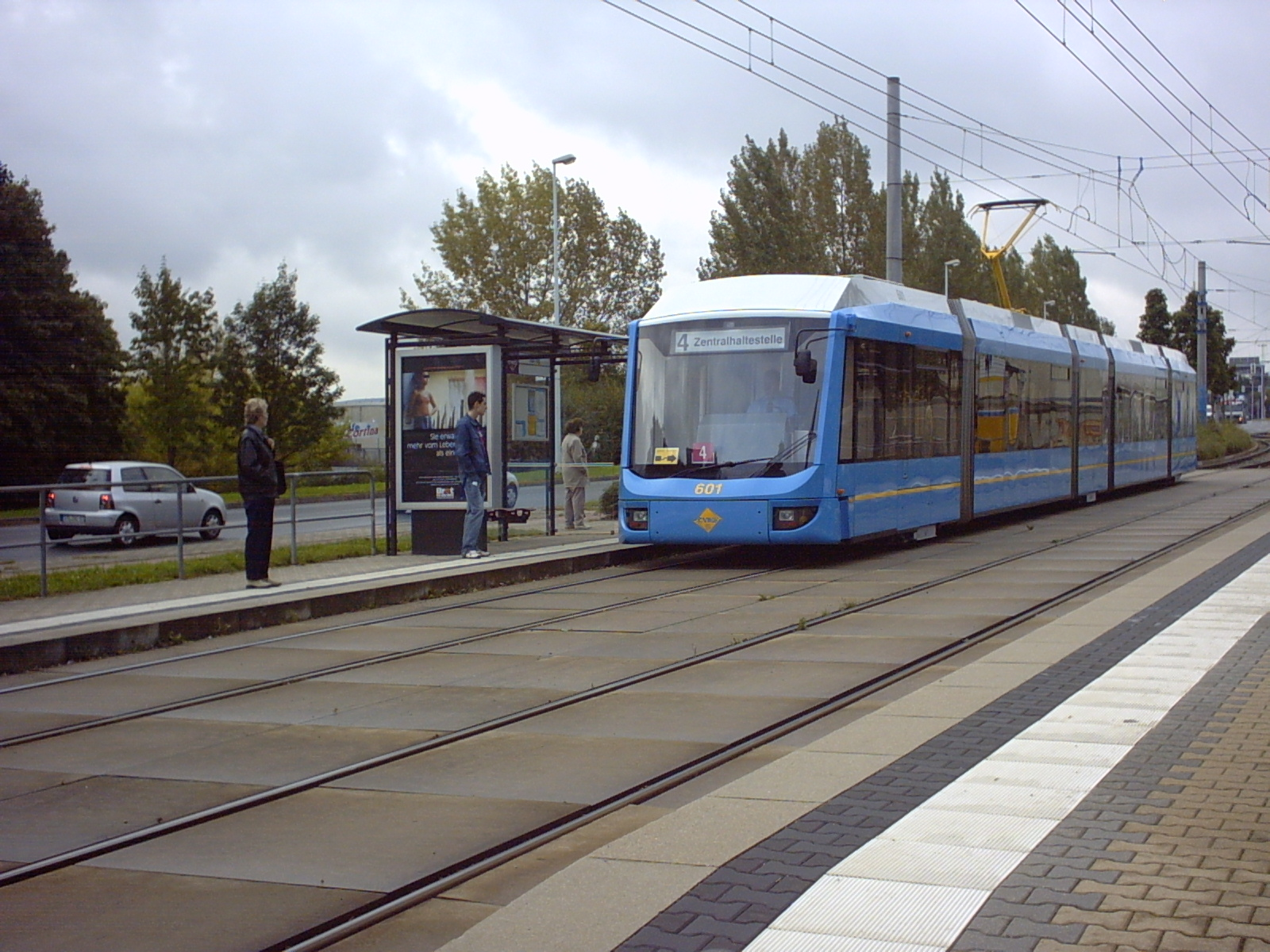 Chemnitz Vario Car tram in Chemnitz